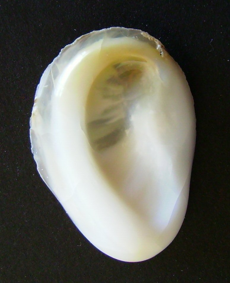 Cookia sulcata operculum from Auckland, New Zealand. This work has been released into the public domain by its author, Graham Bould. This applies worldwide. In some countries this may not be legally possible; if so: Graham Bould grants anyone the right to use this work for any purpose, without any conditions, unless such conditions are required by law.